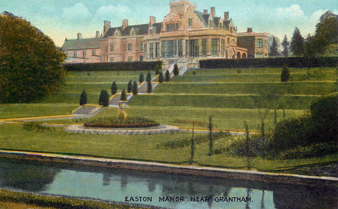 Easton Hall and terraced garden between 1900 and 1910. Published as part of The "Pelham" Series.